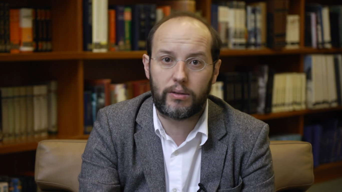 Rui Tavares in 2016.